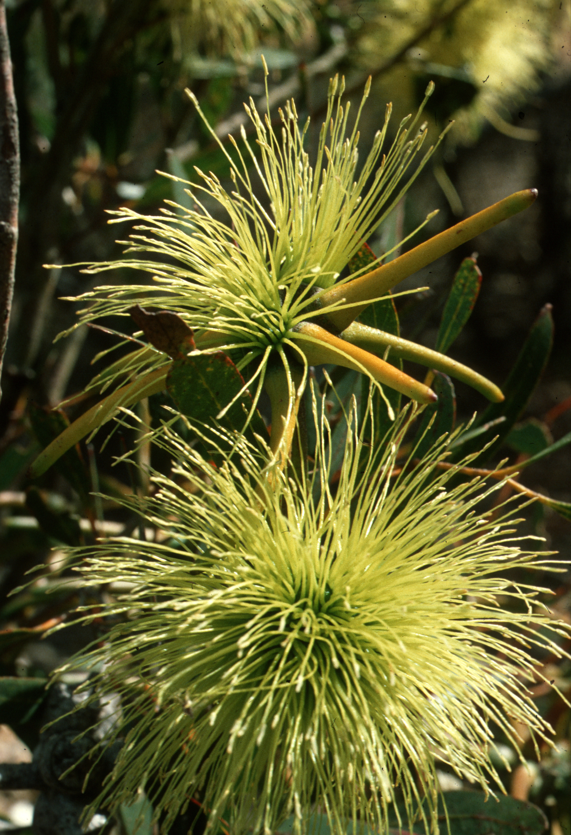 A large number of unusual mallee eucalypts are found in the south-west of Australia. The bushy yate is one of a group of eucalypts with radiating finger-like buds, which, after flowering, develop into a dense head of seed capsules resembling a caveman's club. It is the only eucalypt with the flowers united into a head, thus the name 'bushy yate'.